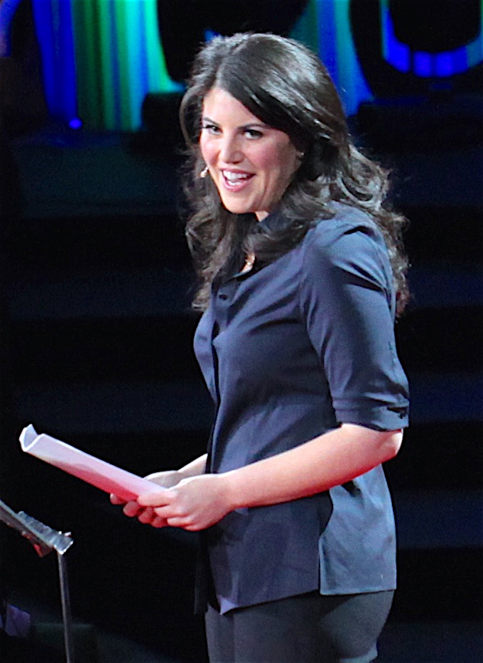 Monica Lewinsky in 2015 during her TED Talk